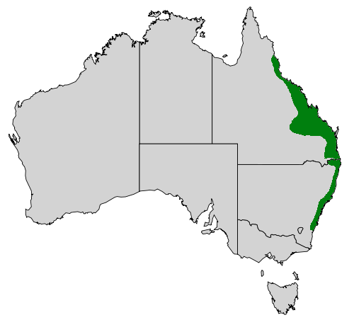 Distribution of floury baker (Aleeta curvicosta) - derived from Moulds, Maxwell Sydney (30 April 2012). "A Review of the Genera of Australian Cicadas (Hemiptera: Cicadoidea)". Zootaxa 3287: 1–262 [49–50]. - map of Australia derived from File:Australia map, States.svg